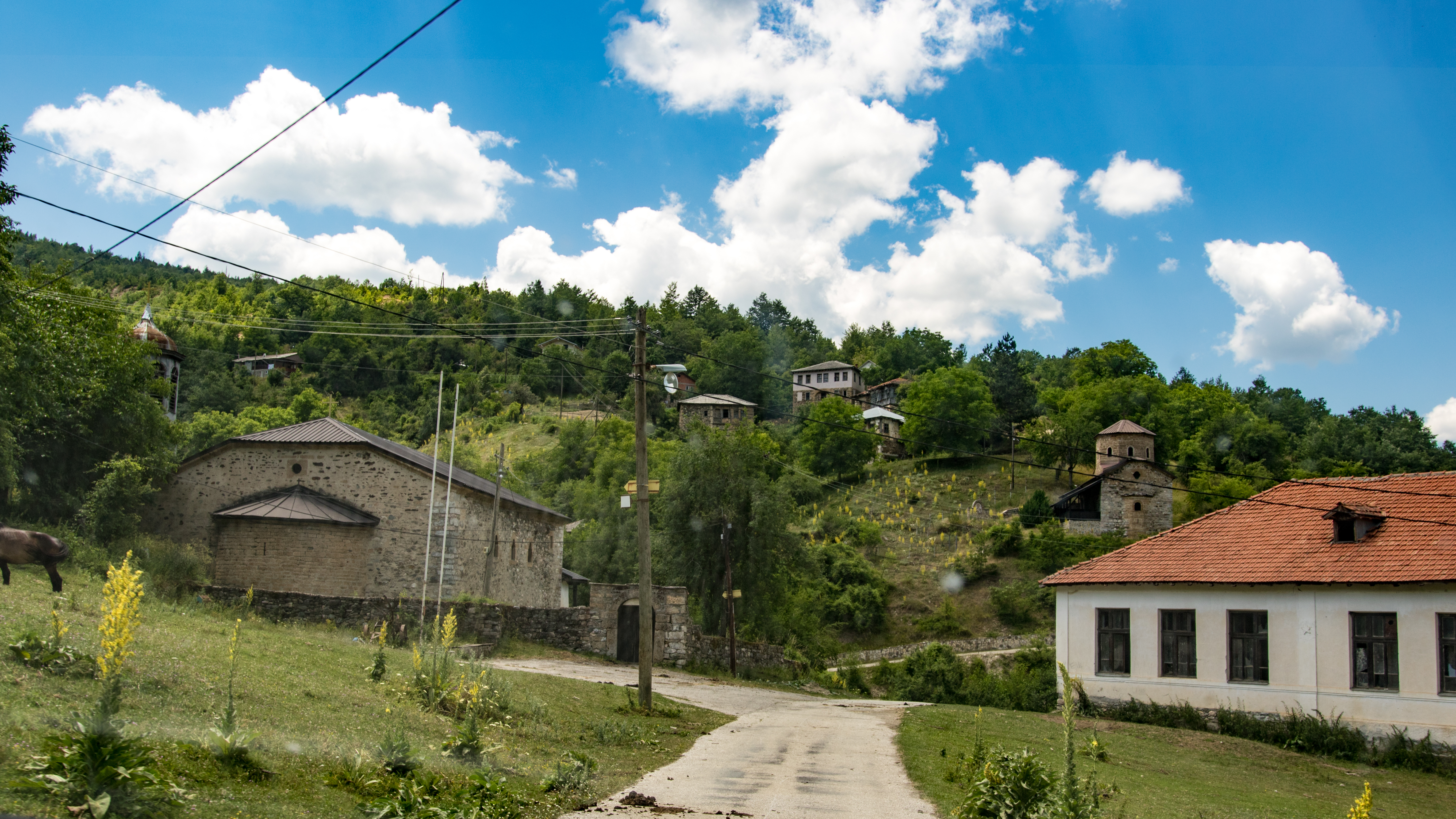 Center of the village Tresonče